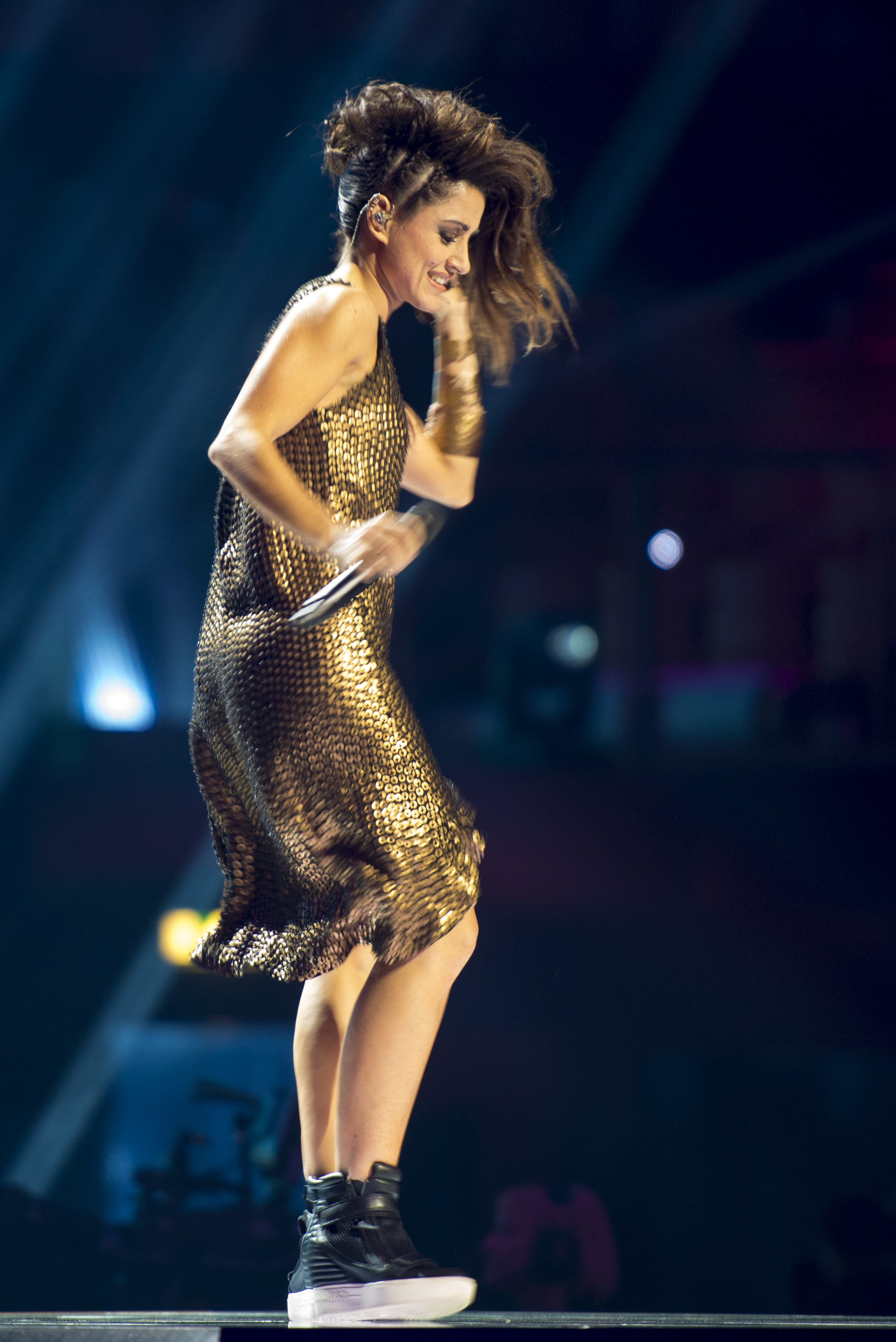 Barei representing Spain with the song "Say Yay!" during a rehearsal for "the Big Five" in the Eurovision Song Contest 2016 in Stockholm. (Help translate this text)